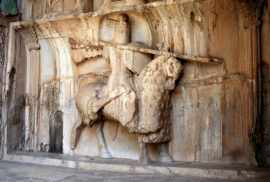 Taq-e Bostan: equestrian statue of Khosro II in parthian armor